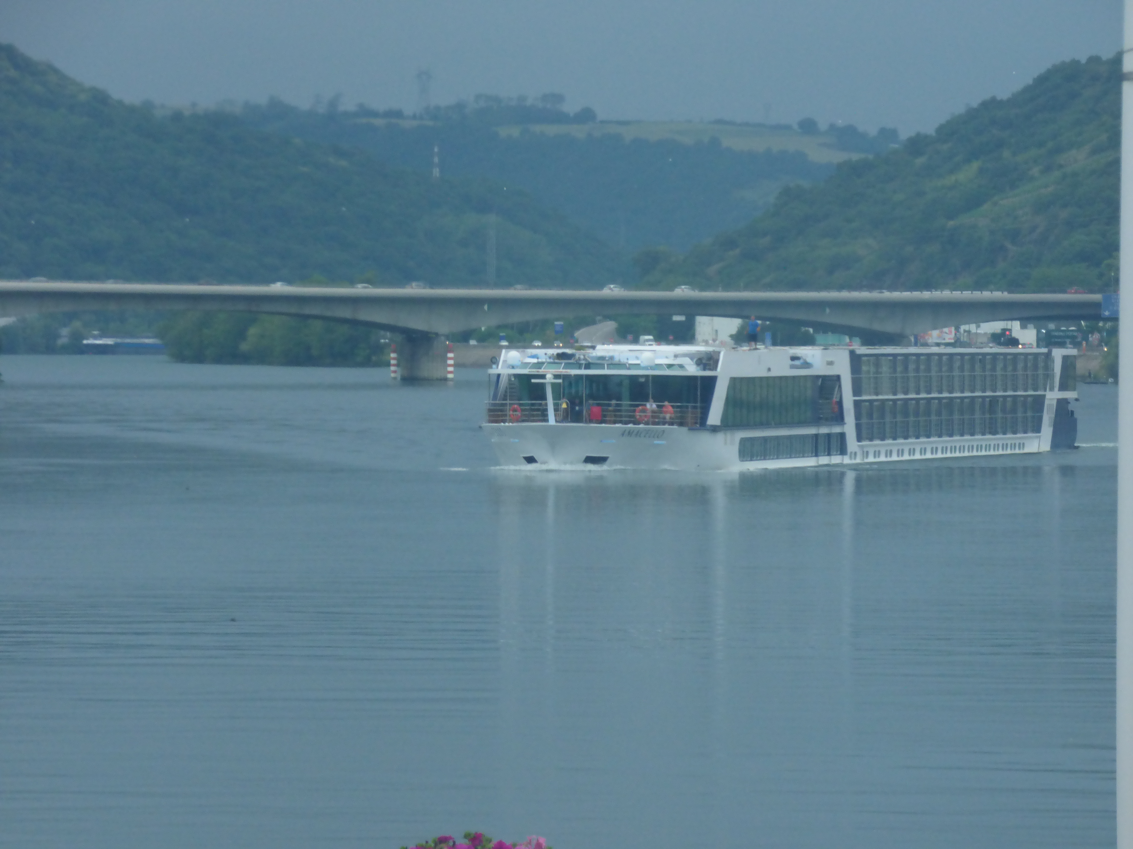 Back on the coach leaving Vienne and heading back towards Lyon along the River Rhône. On the other side of the river is Sainte-Colombe, Rhône Sainte-Colombe, sometimes referred to as Sainte-Colombe-lès-Vienne, is a commune in the Rhône department in eastern France. Boulevard du Rhône-Nord ferry - Amacello Bridge on the motorway that's the Autoroute du Soleil.